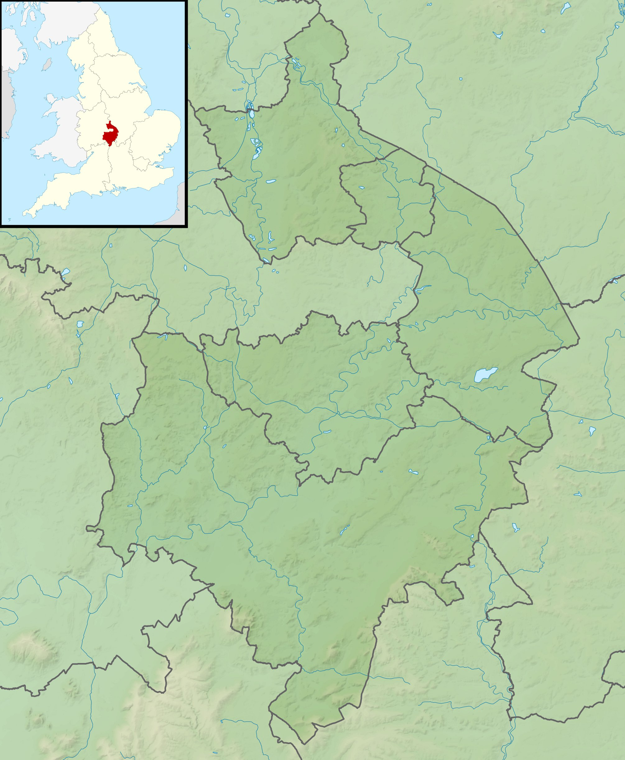 Relief map of Warwickshire, UK. Equirectangular map projection on WGS 84 datum, with N/S stretched 160% Geographic limits: West: 2.10W East: 1.10W North: 52.70N South: 51.94N